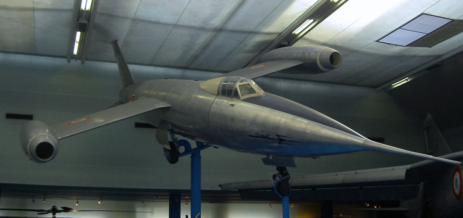 French experimental aircraft (SO.9000 "Trident")